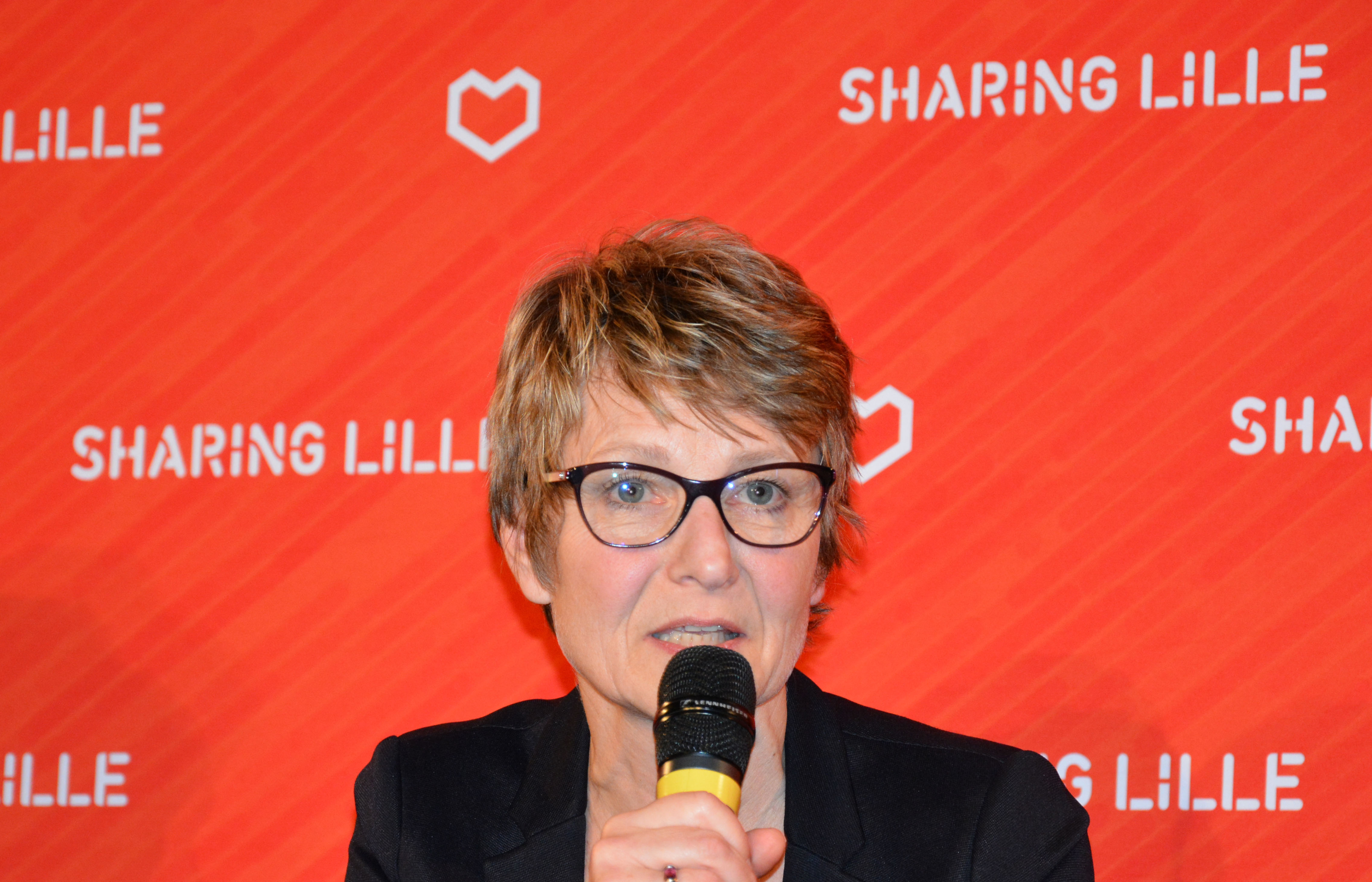 Marie-Caroline Bonnet Galzy (CGET ou Commissariat général à l'égalité des territoires]), "Sharing Lille" 2016-04-21 (day dedicated to the collaborative economy across territories). This event was held in Lille Euratechnologies (in Region Nord-Pas-de-Calais and Picardy called "Hauts de France")